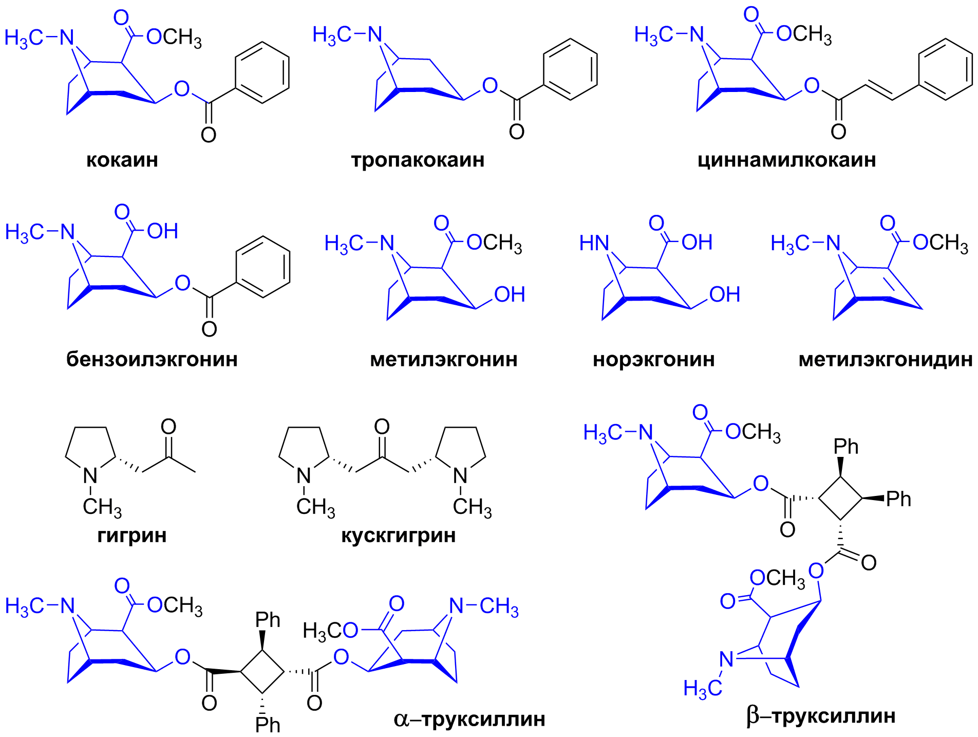 Alkaloids found in coca (based on Orekhov. Khimia alkaloidov, 1955)